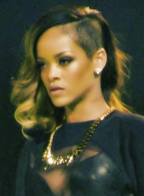 Rihanna performing Diamonds World Tour at the Air Canada Centre, 19 March 2013.